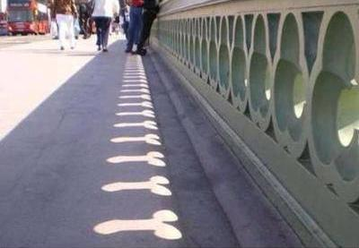 Shadow on Westminster Bridge